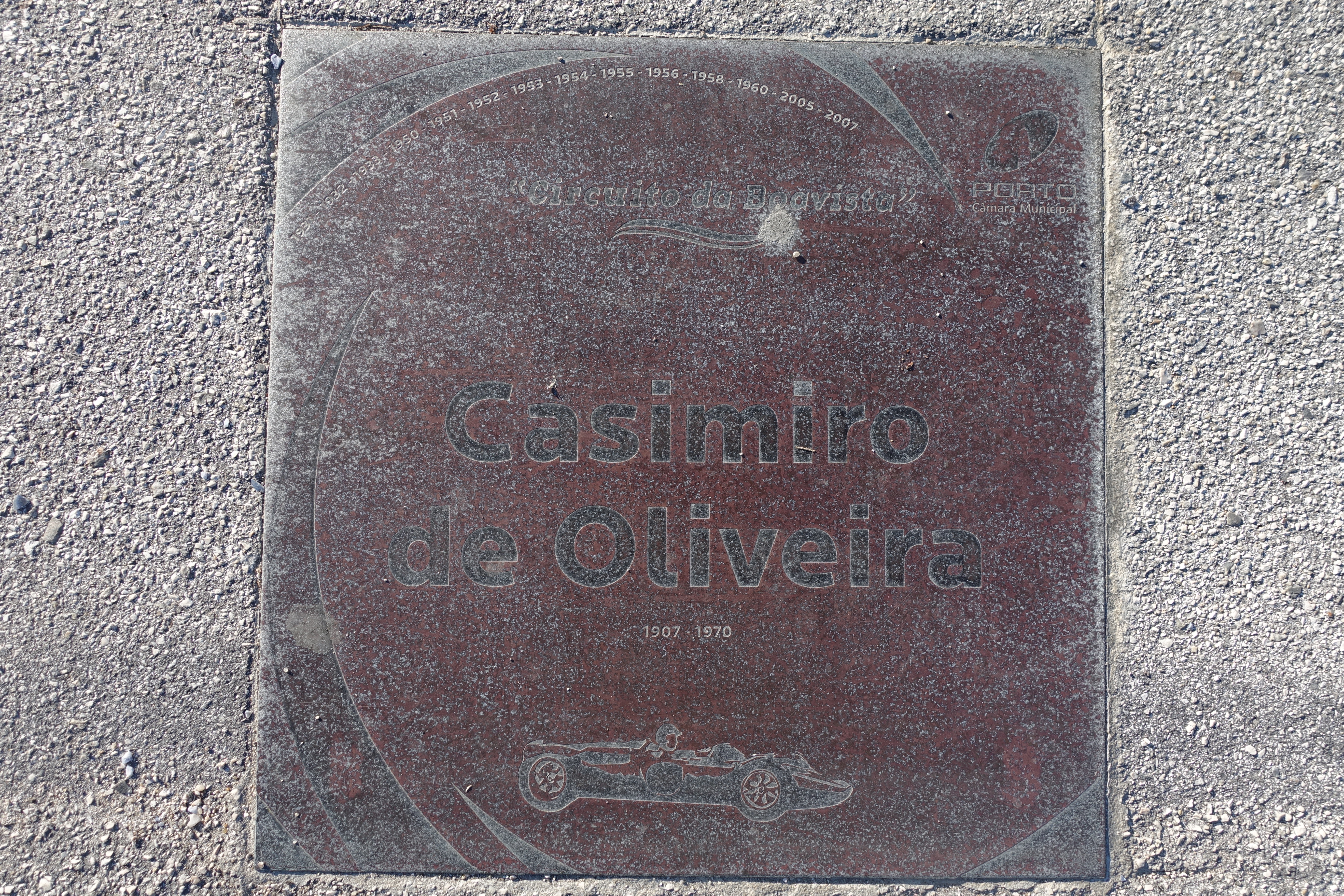 Plaque in Praça de Gonçalves Zarco, Porto, Portugal.